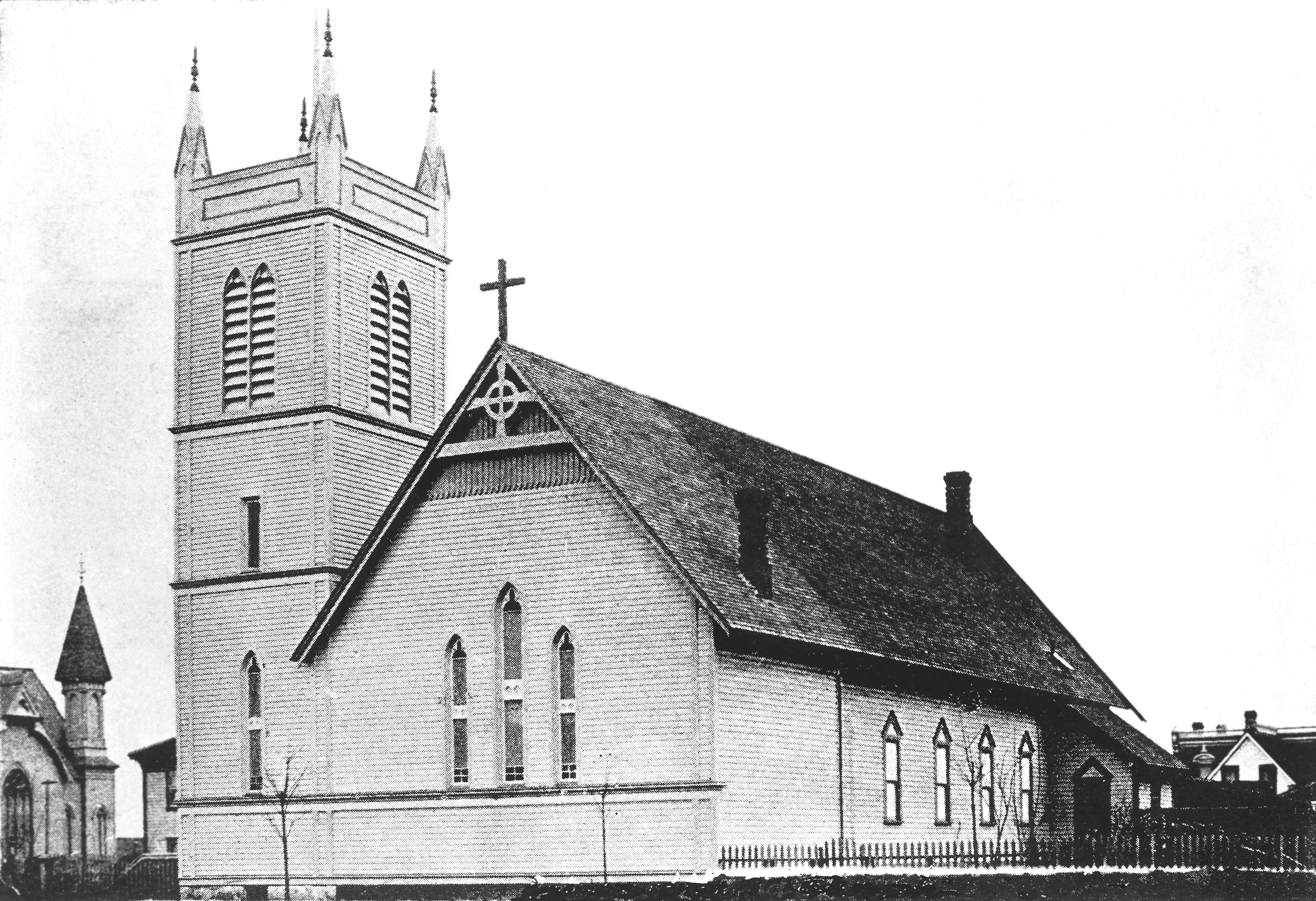 The old Holy Rosary Church circa 1889 with the new bell tower added. It is the precursor to the current cathedral.